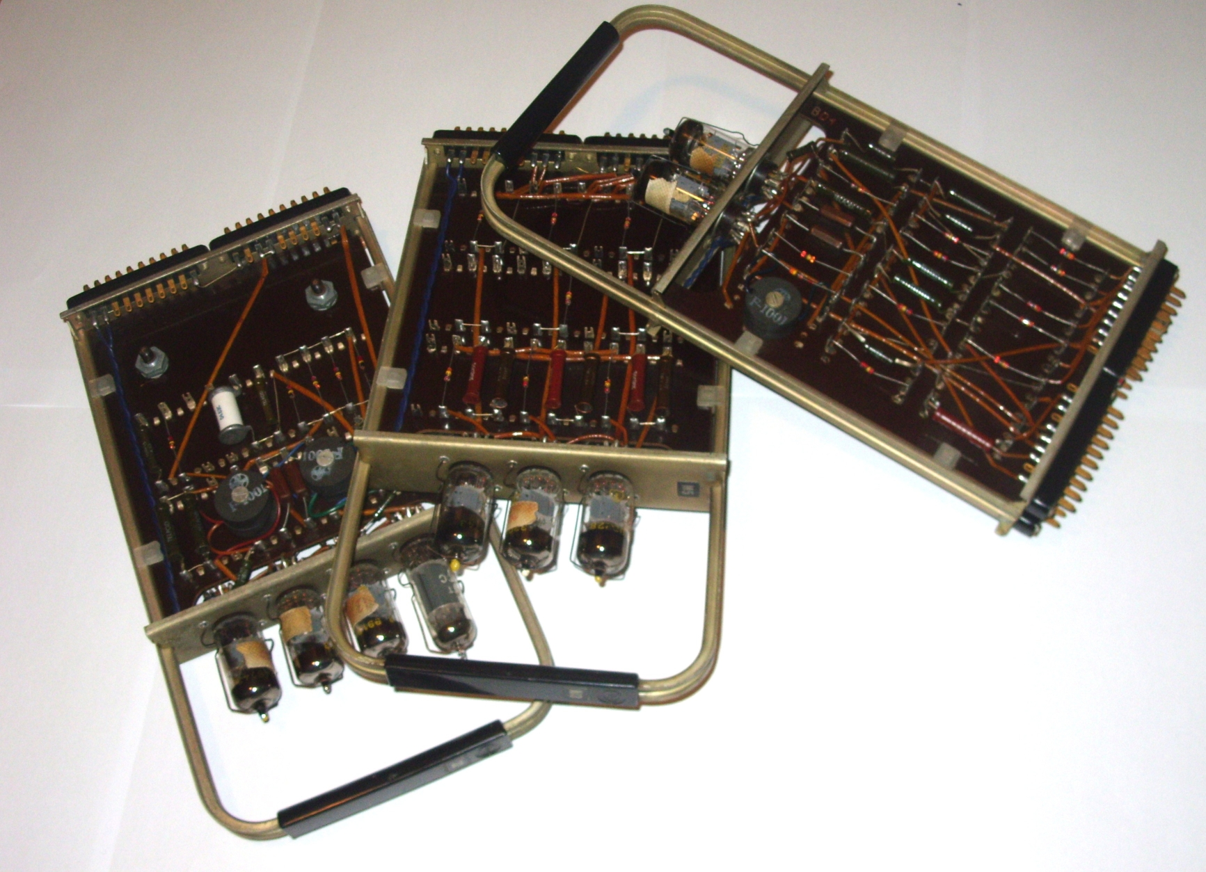 The remains of the computer UMC-1 found in the recesses of the University of Maria Curie-Sklodowska University in Lublin. This copy was probably scrapped, hence the small number of surviving components. Most of the vacuum tubes used are ECC85.